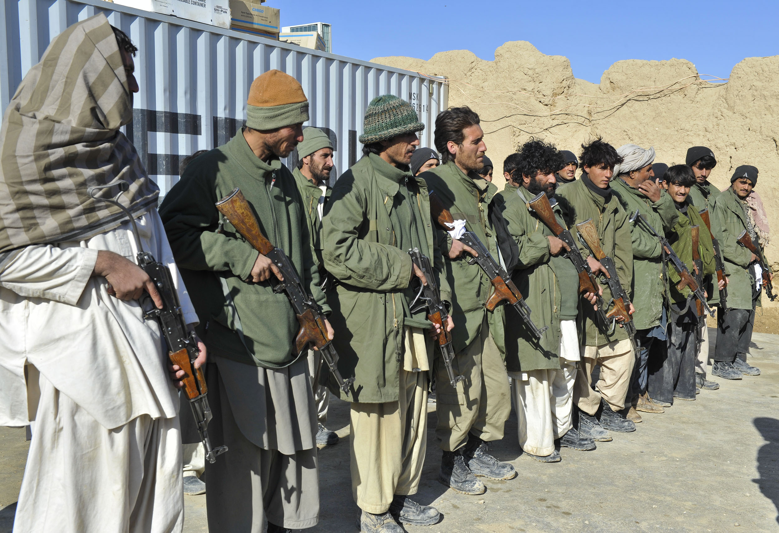 Afghan Local Police candidates line up in formation during a training evolution in Shah Joy district, Zabul province, Afghanistan, Jan. 16. The ALP is a defensive, community-oriented force that brings security and stability to rural areas of Afghanistan.